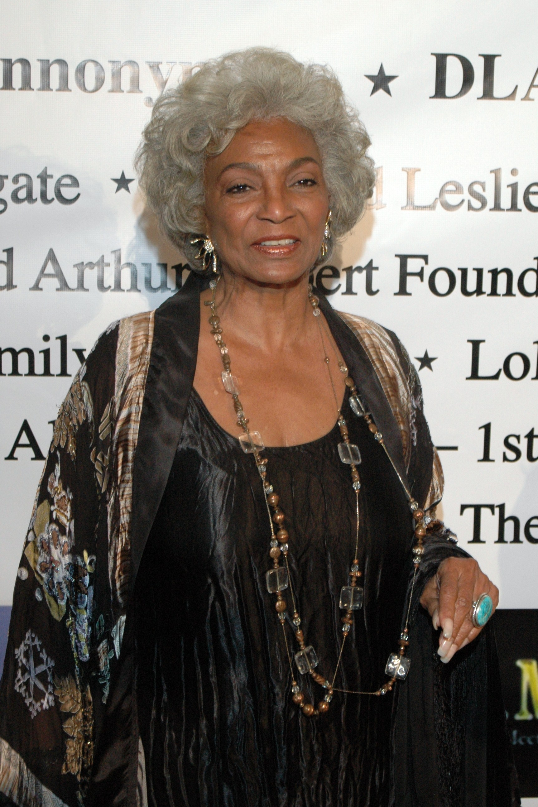 Nichelle Nichols on the Children Uniting Nations Academy Award Viewing Party red carpet, at the Beverly Hilton, Beverly Hills, Los Angeles, California. Held preceding the start of the Oscar telecast.